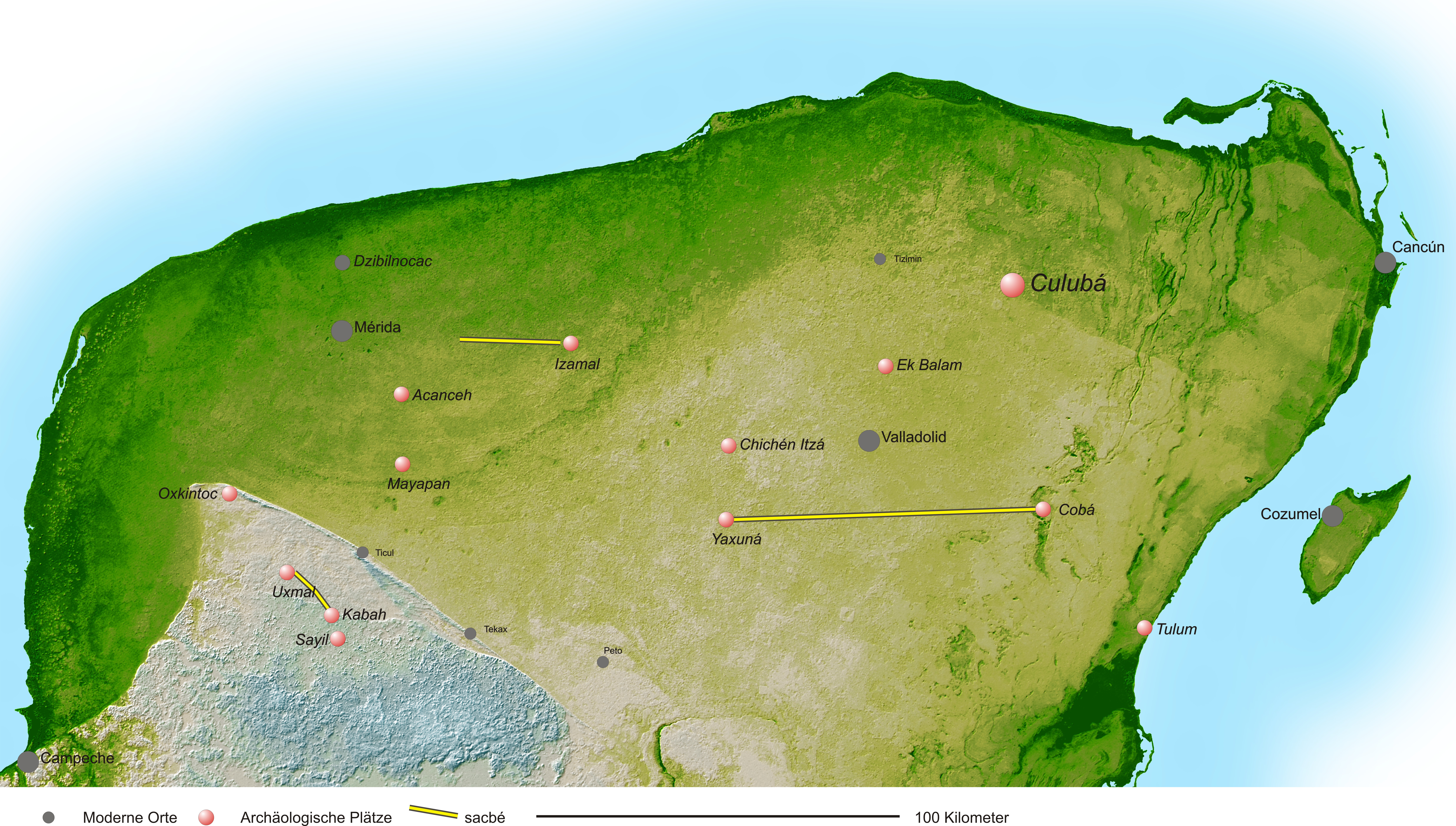 Culubá, Yucatán, Mexico: location